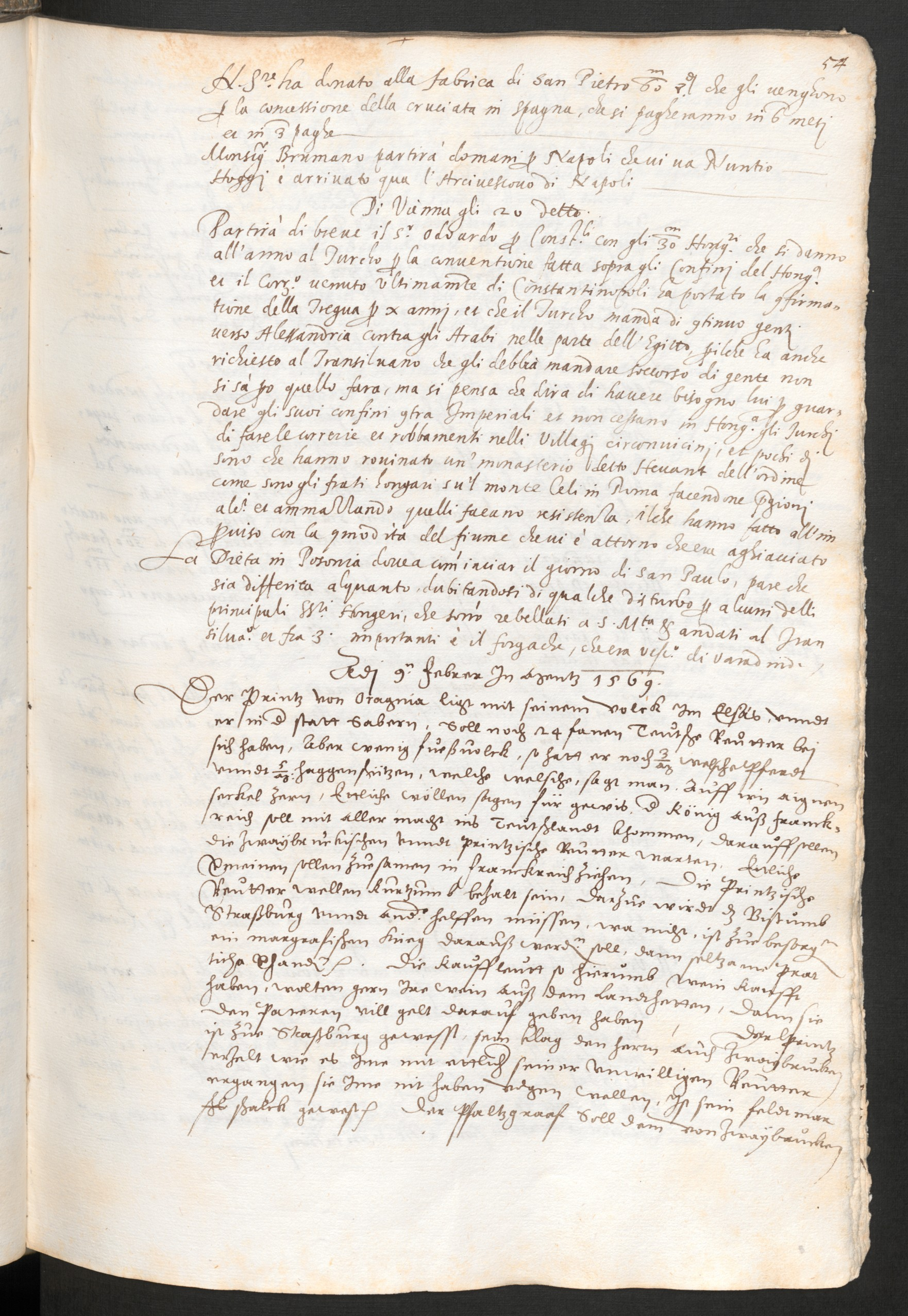 old austrian newspaper